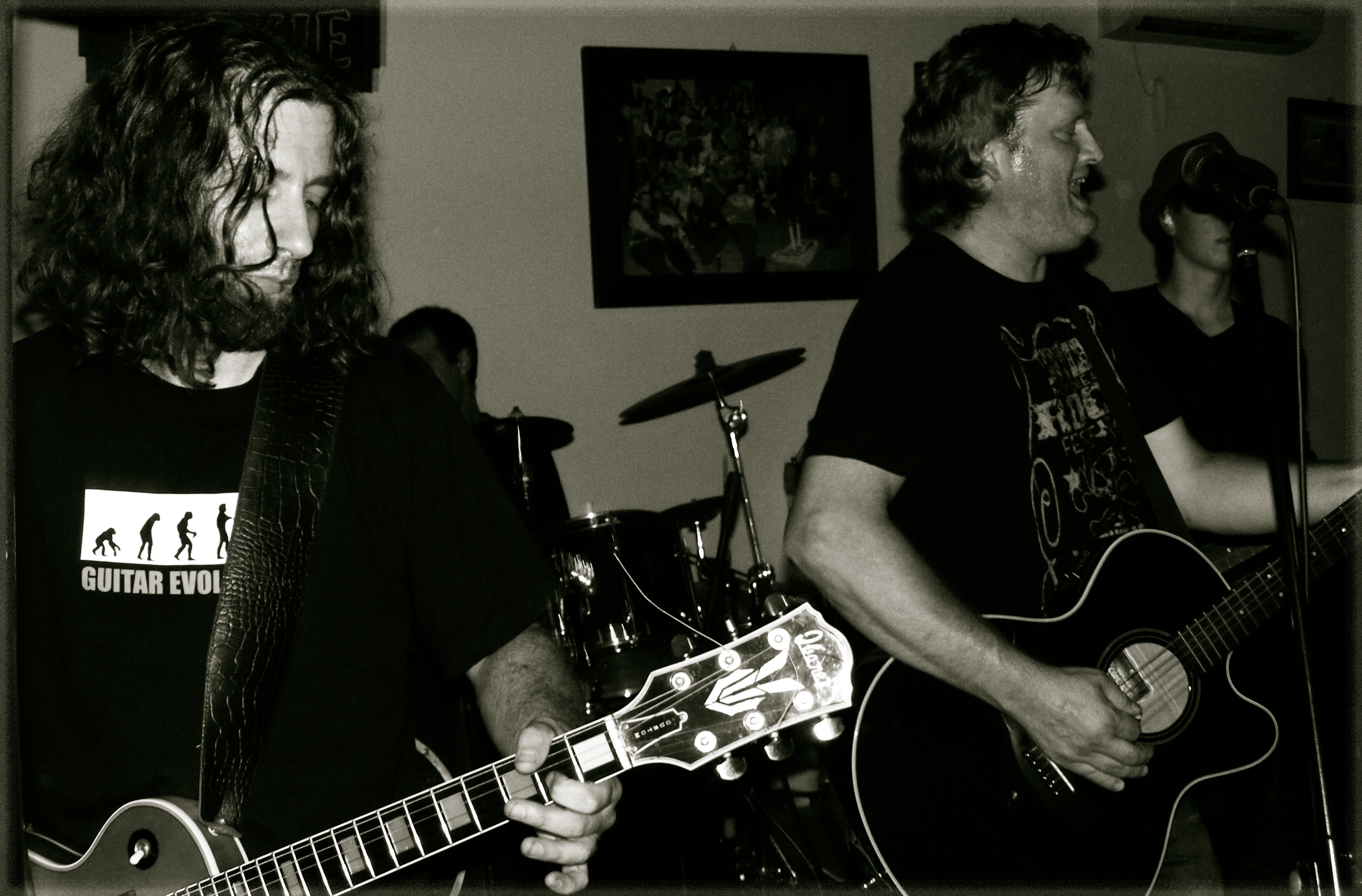 Kofirock, live in Tarnobrzeg 2011-06-24